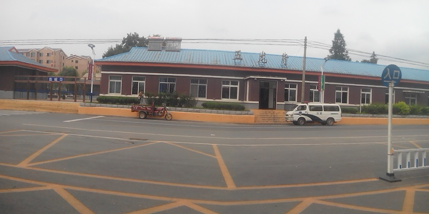 Wulongbei Railway Station